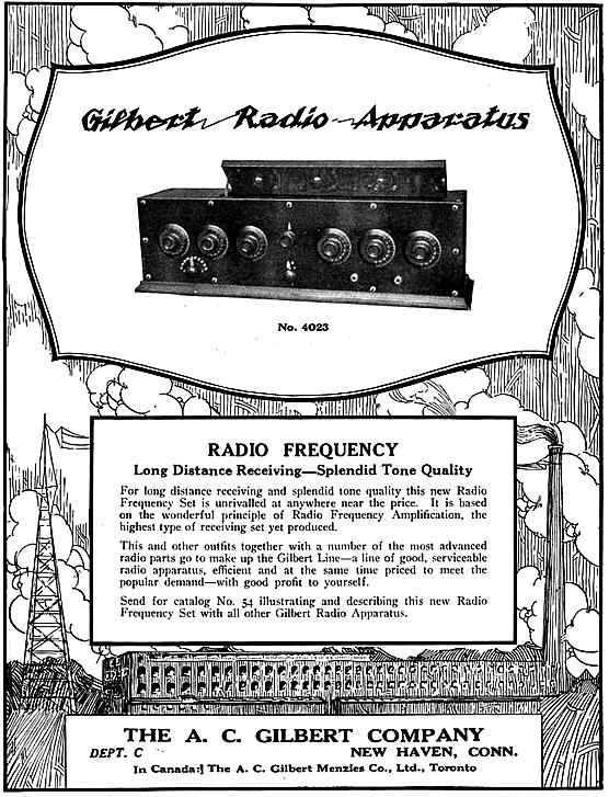 Advertisement for radio equipment sold by the A. C. Gilbert Co. of New Haven, Connecticut. Included is a line drawing of the antenna used for transmissions by radio station WCJ.